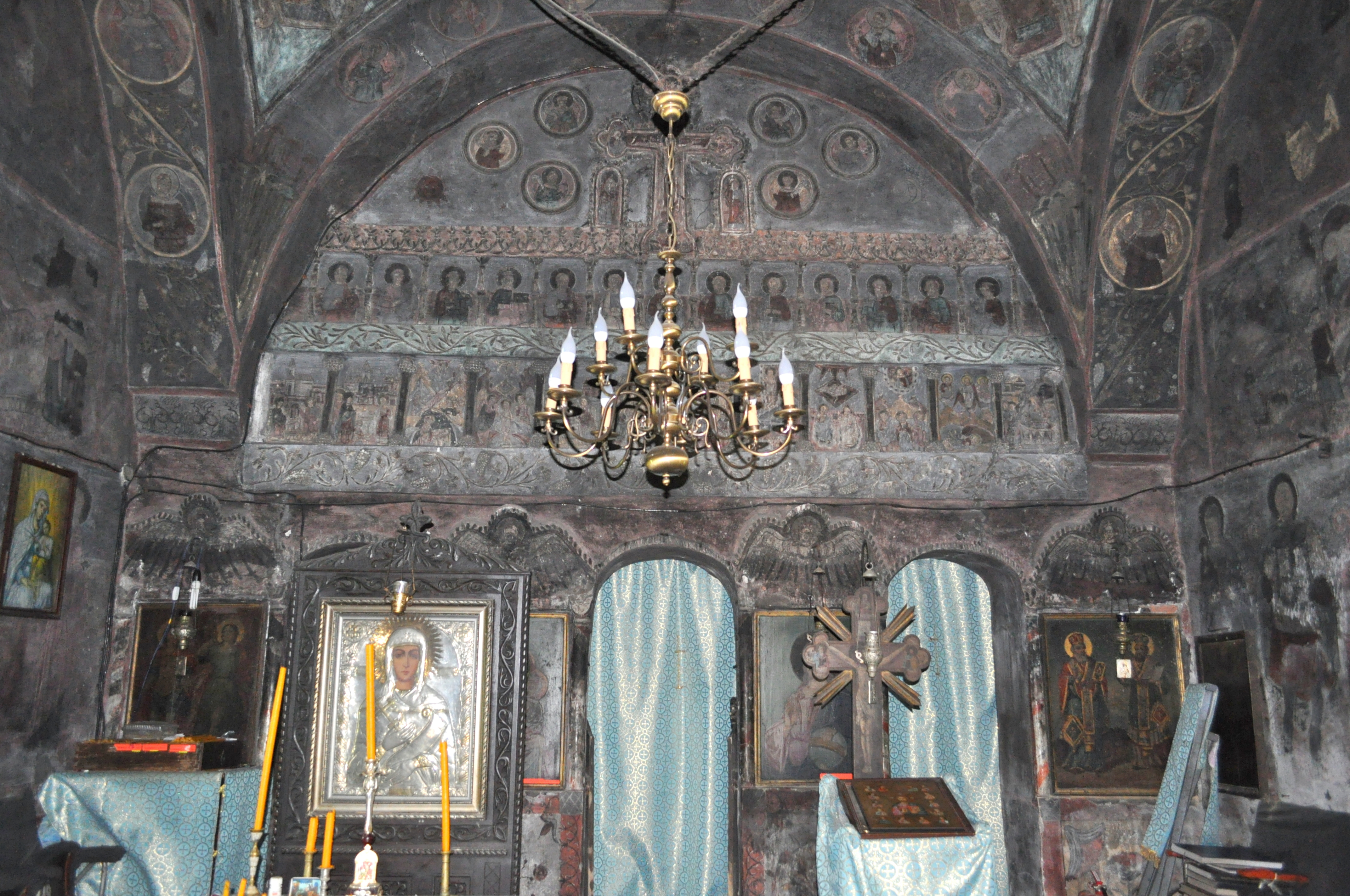 Saint Nicholas church in Brădiceni, Gorj county, Romania